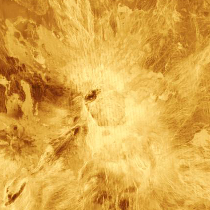 Ozza Mons, a volcano in Atla Regio on Venus.